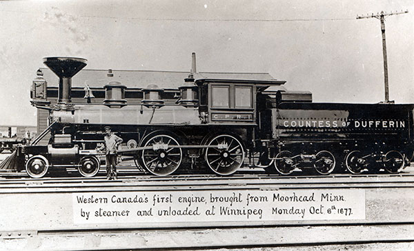 Countess of Dufferin, the first steam locomotive in western Canada, which arrived at Winnipeg on 8 October 1877